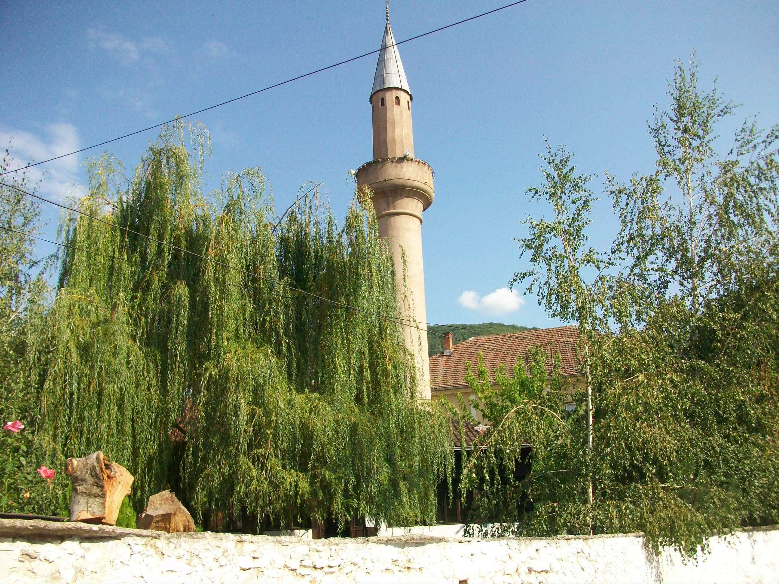 Pictures from Prizren Kosovo